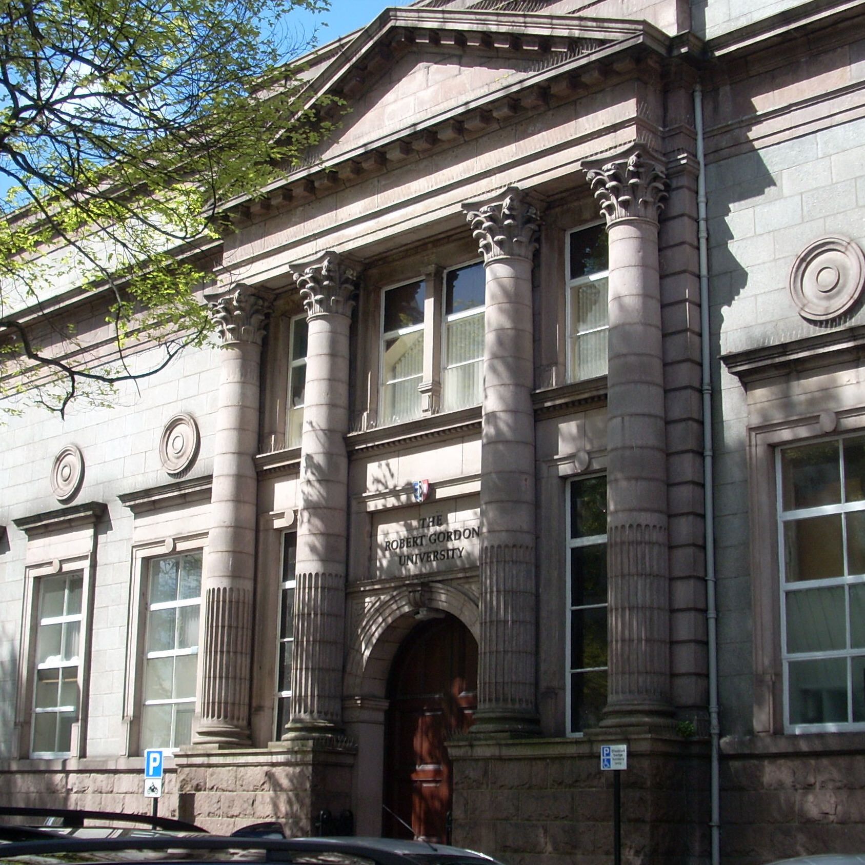 Entrance to Administration Building of The Robert Gordon University, Schoolhill, Aberdeen, United Kingdom